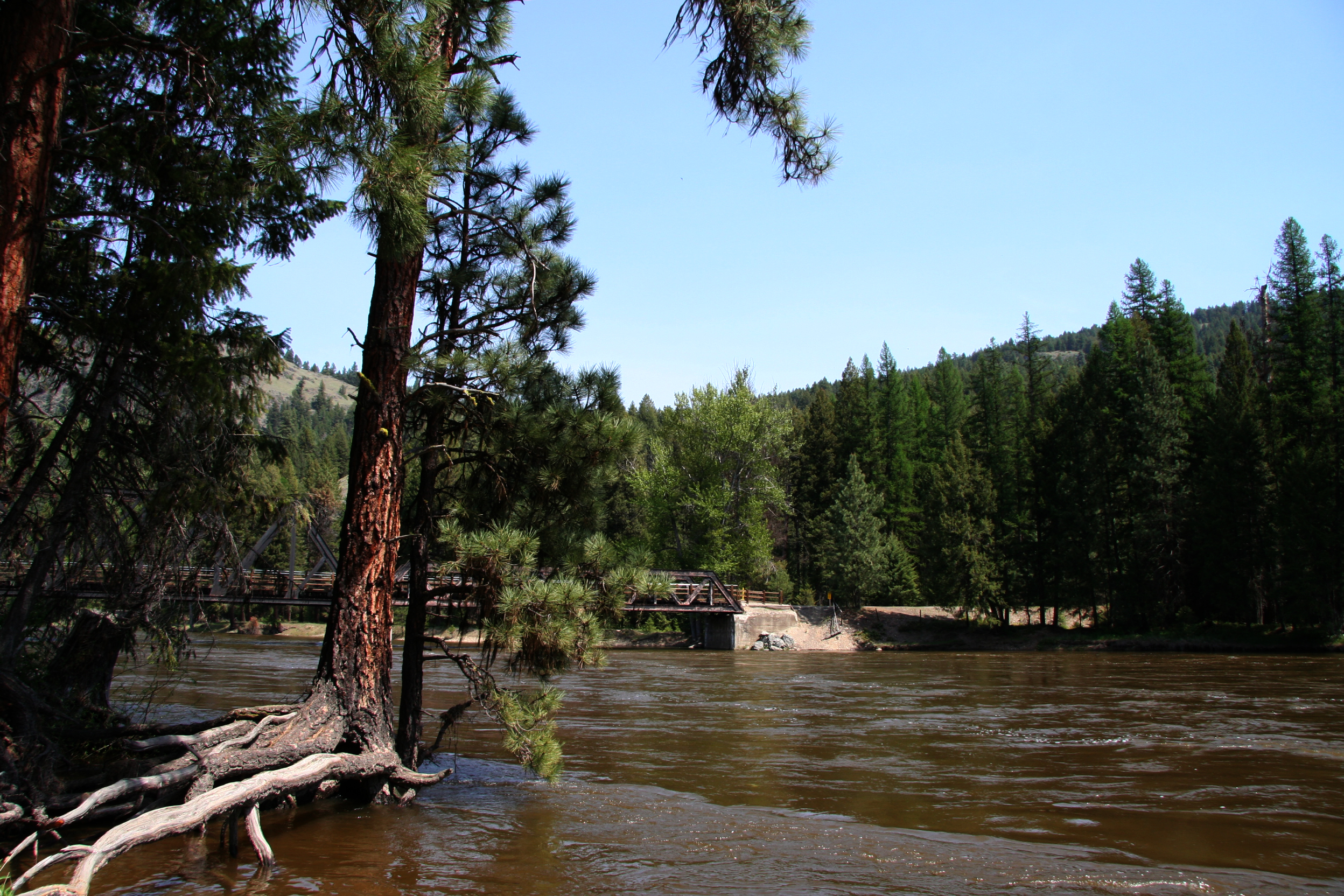 The Kettle River between the Okanagan Plateau and Monashee Mountains.